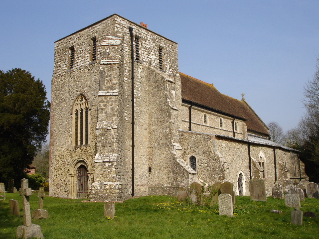 Brabourne church looking N.N.E. Brabourne Church, dedicated to St Mary the Virgin, dates from 1144 and is one of oldest buildings in England still in regular use. Its tower is no higher than the nave and contains 8 bells, unusual for a parish church.